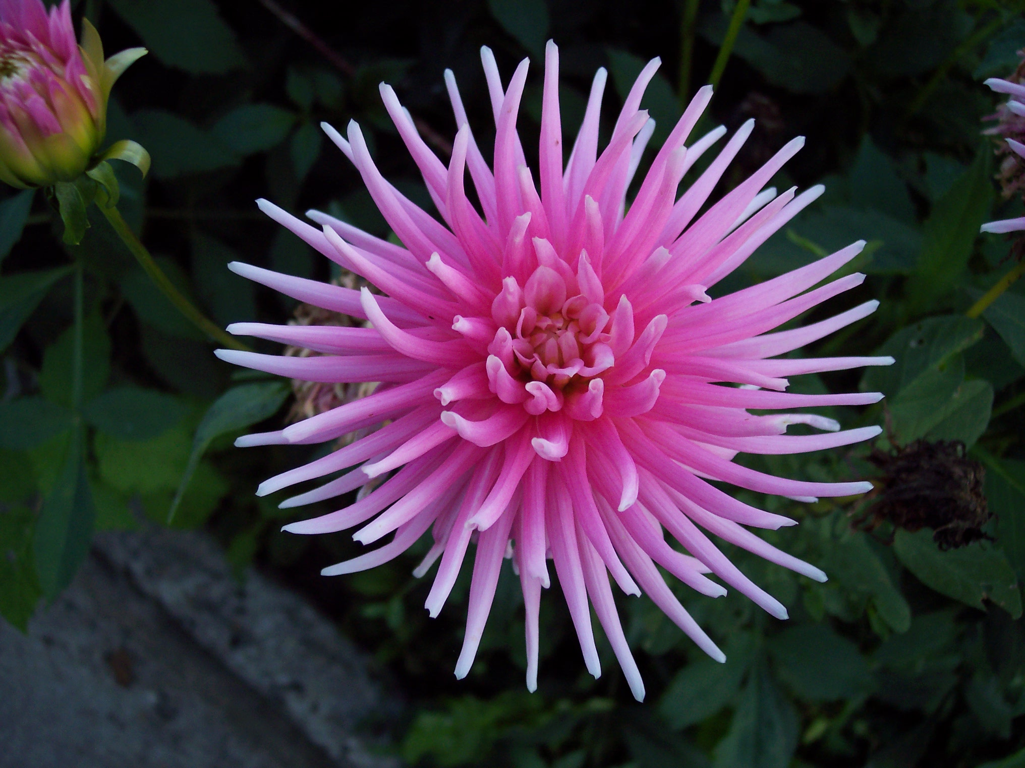 Pink Dahlia